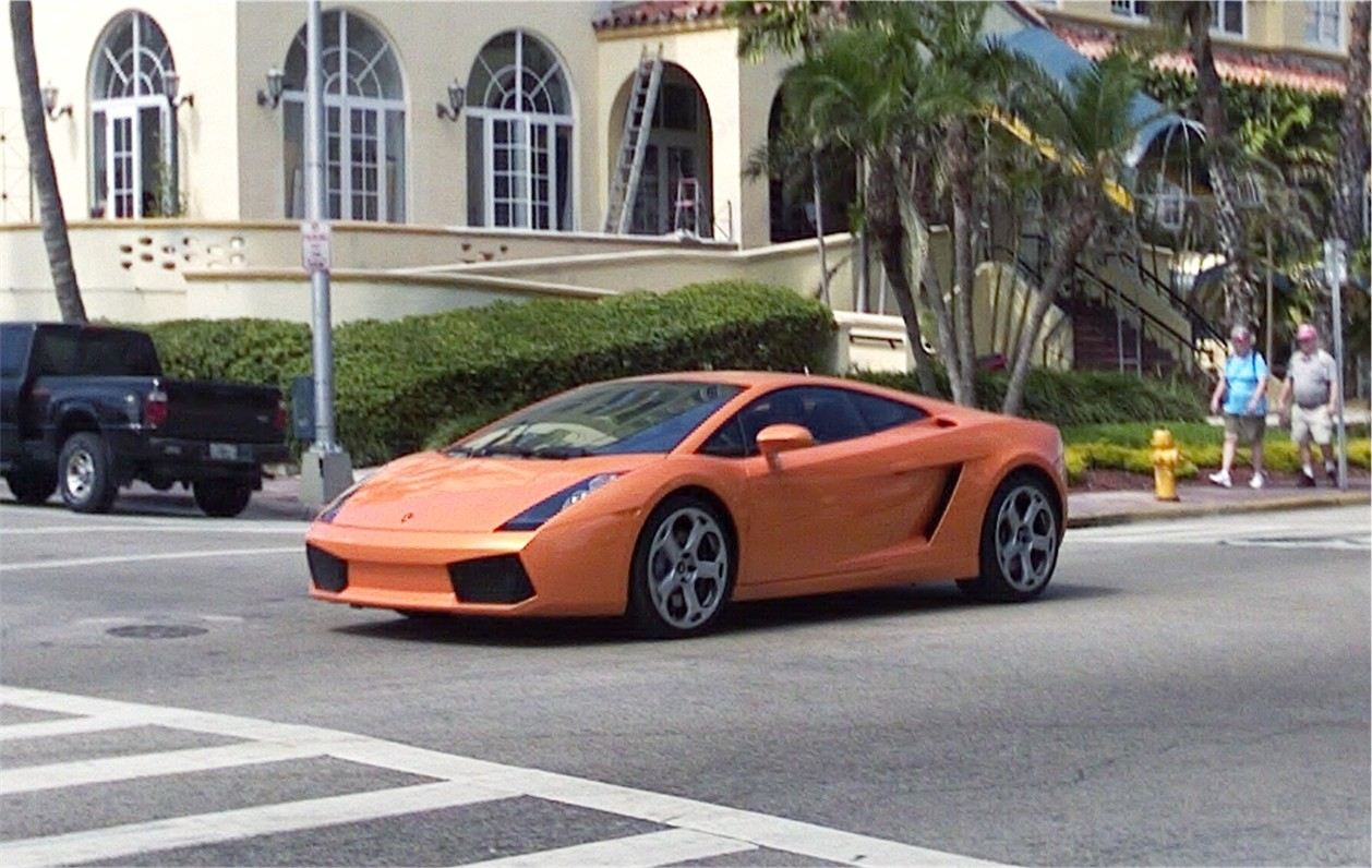 Lamborghini Gallardo. Photographed by Jagvar in Miami, Florida on March 8, 2006.